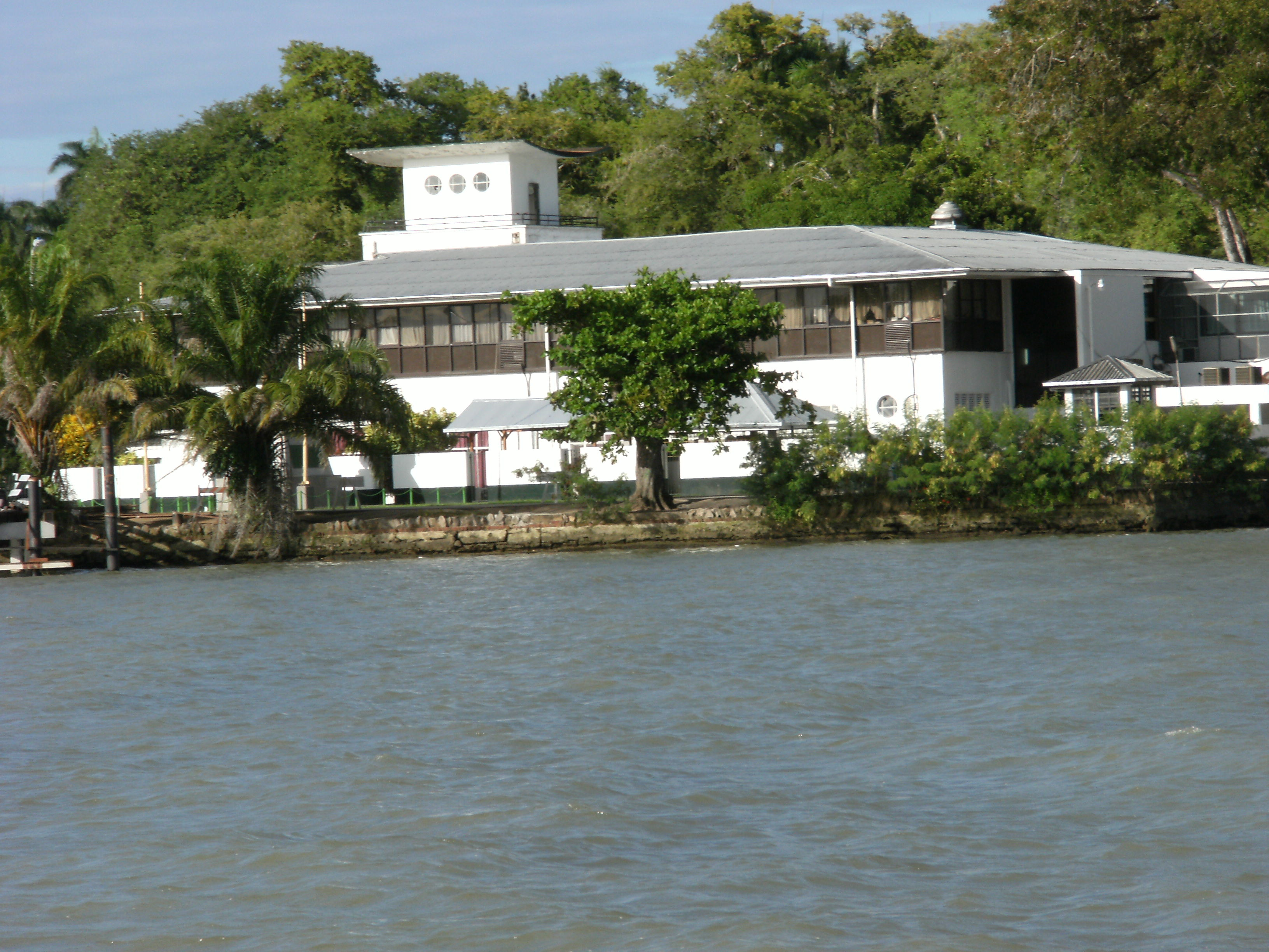 Suriname parliament, seen from the Suriname river.